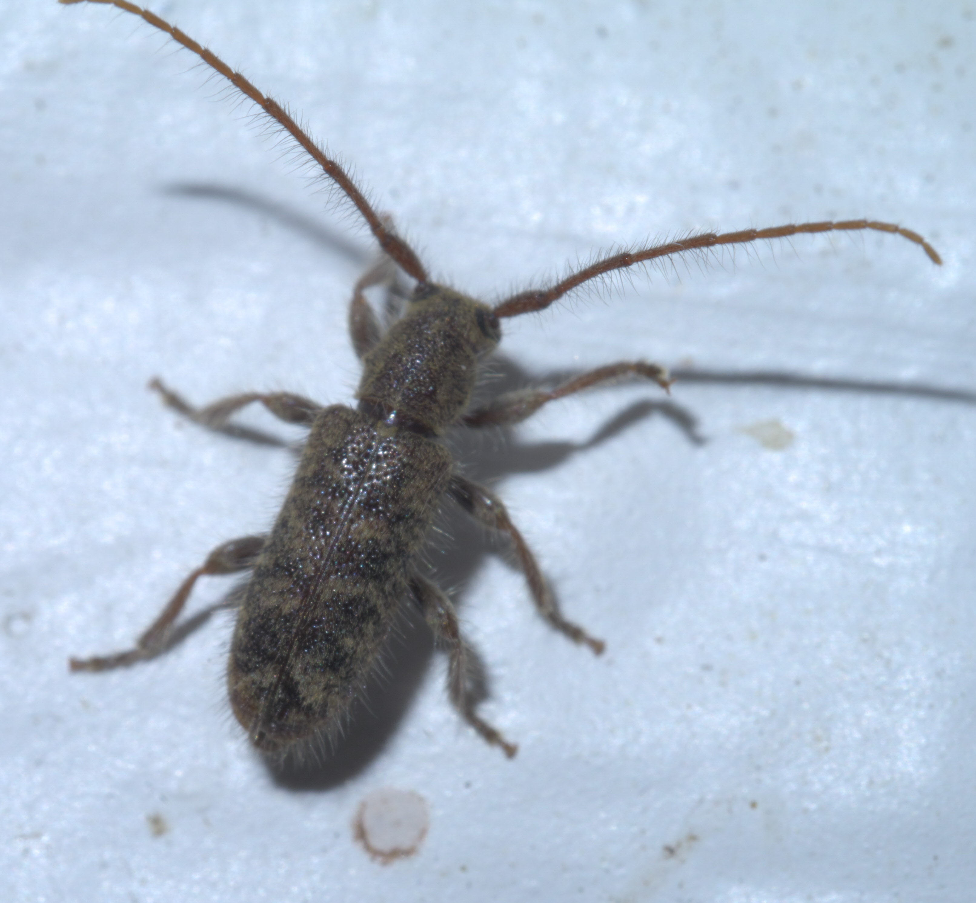 Eupogonius pauper, Subfamily: Flat-Faced Longhorns, Size: 6.1 mm, ID Confidence: 98